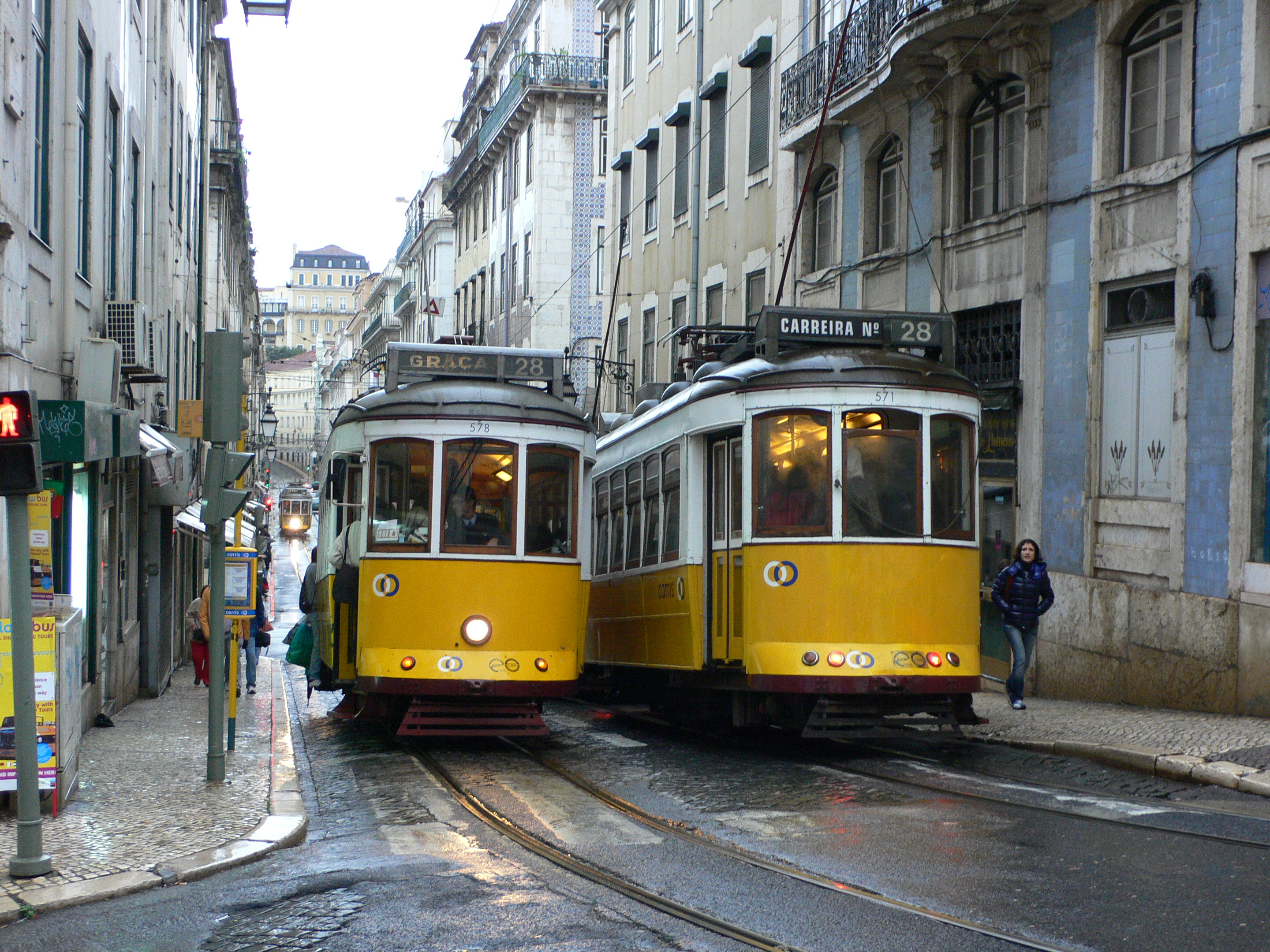 This photo links to my blog article This photo is licenced under Creative commons for use including commercial on condition that you link back to or credit See my profile for more detail.